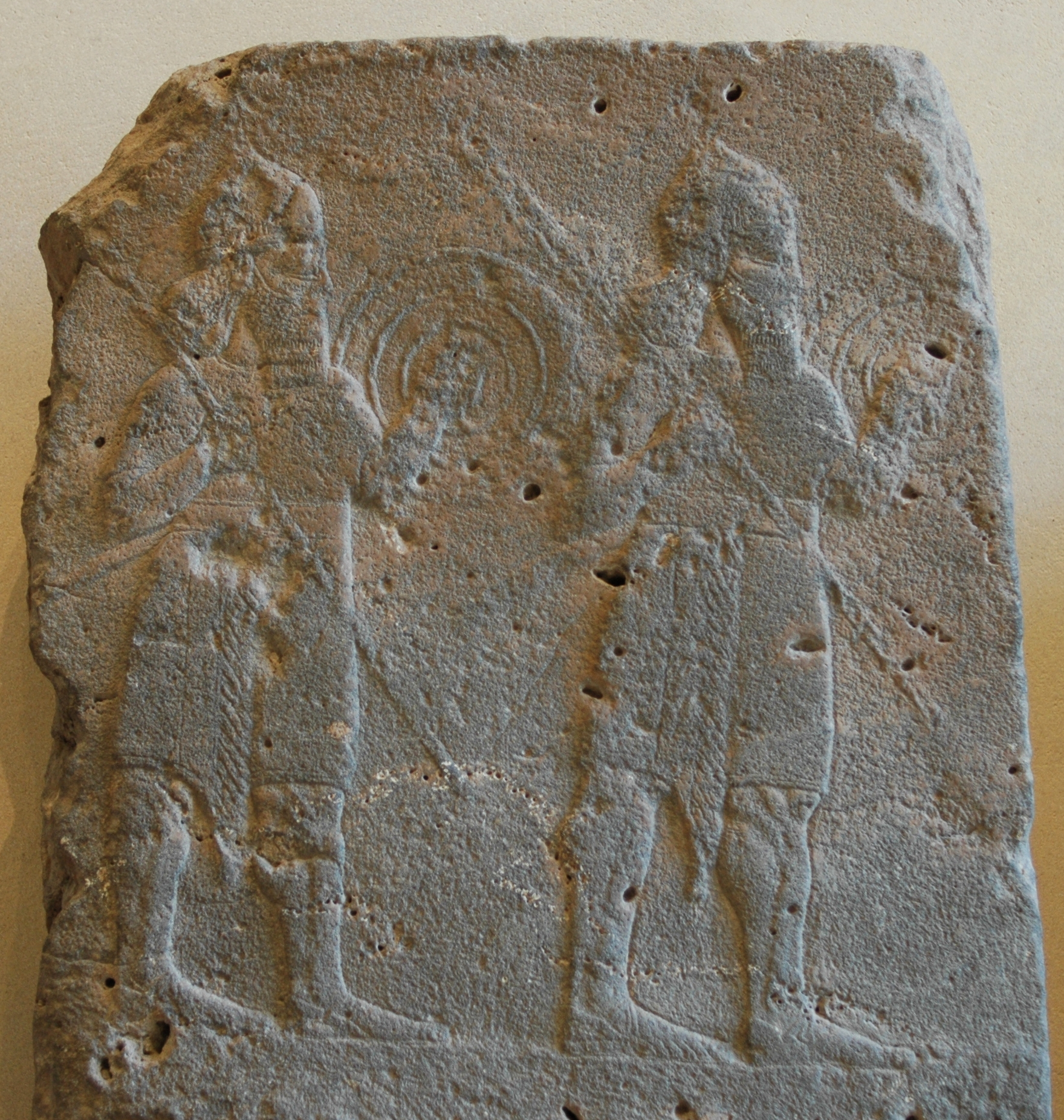 Warriors holding round shields. Basalt orthostat, second half of the 8th century BC, Arslan Tash (ancient Hadatu), Syria.